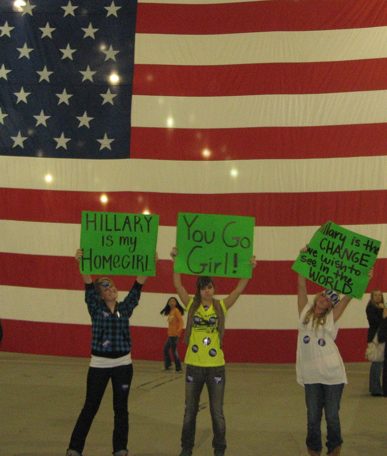 Youth Supporters for Hillary Clinton